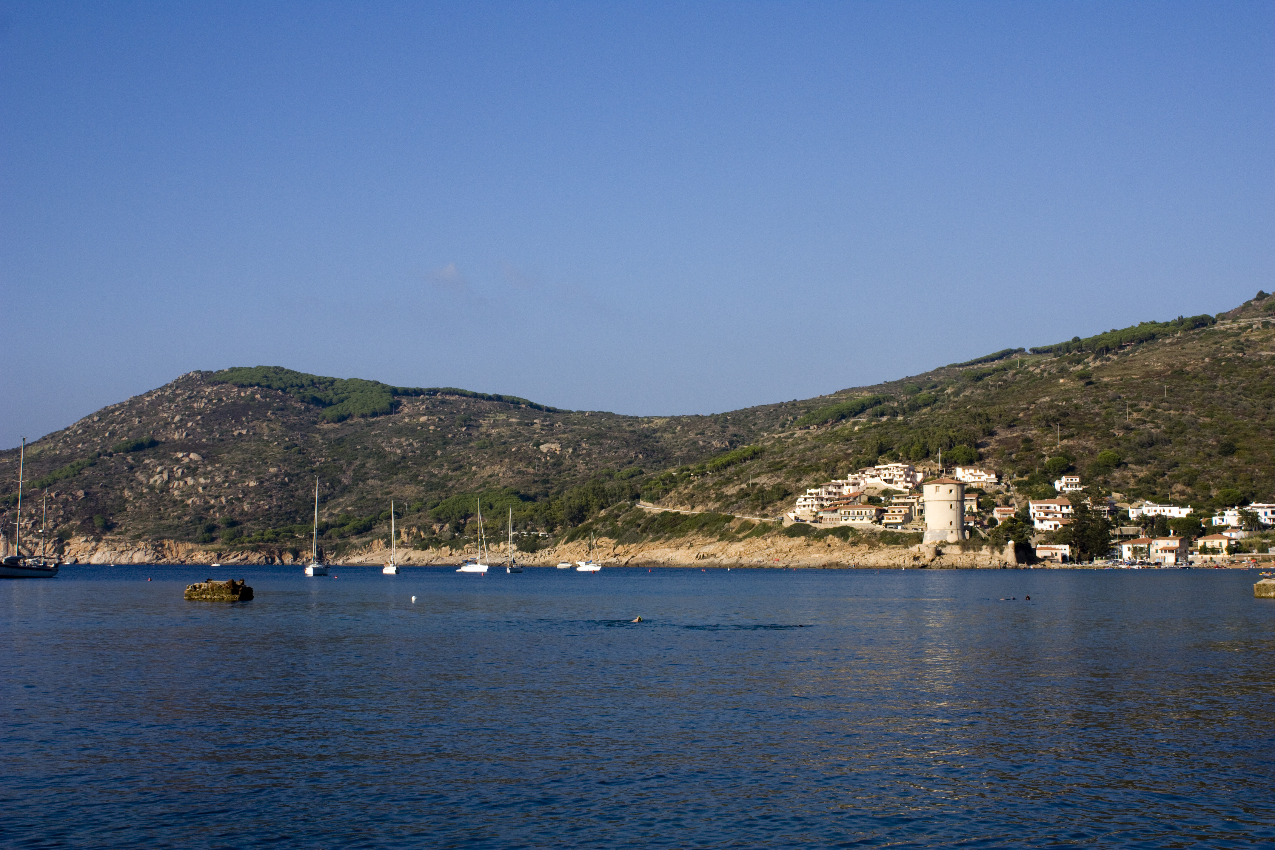 Giglio Campese with medieval tower, on the western coast of Isola del Giglio